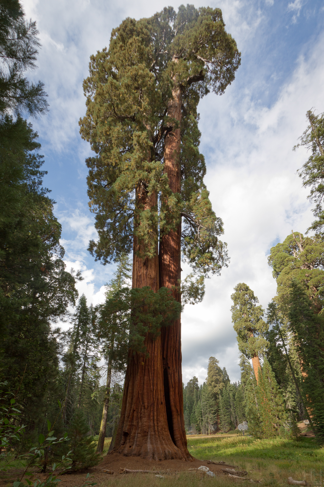 Big Trees Trail - Sequoia National Park